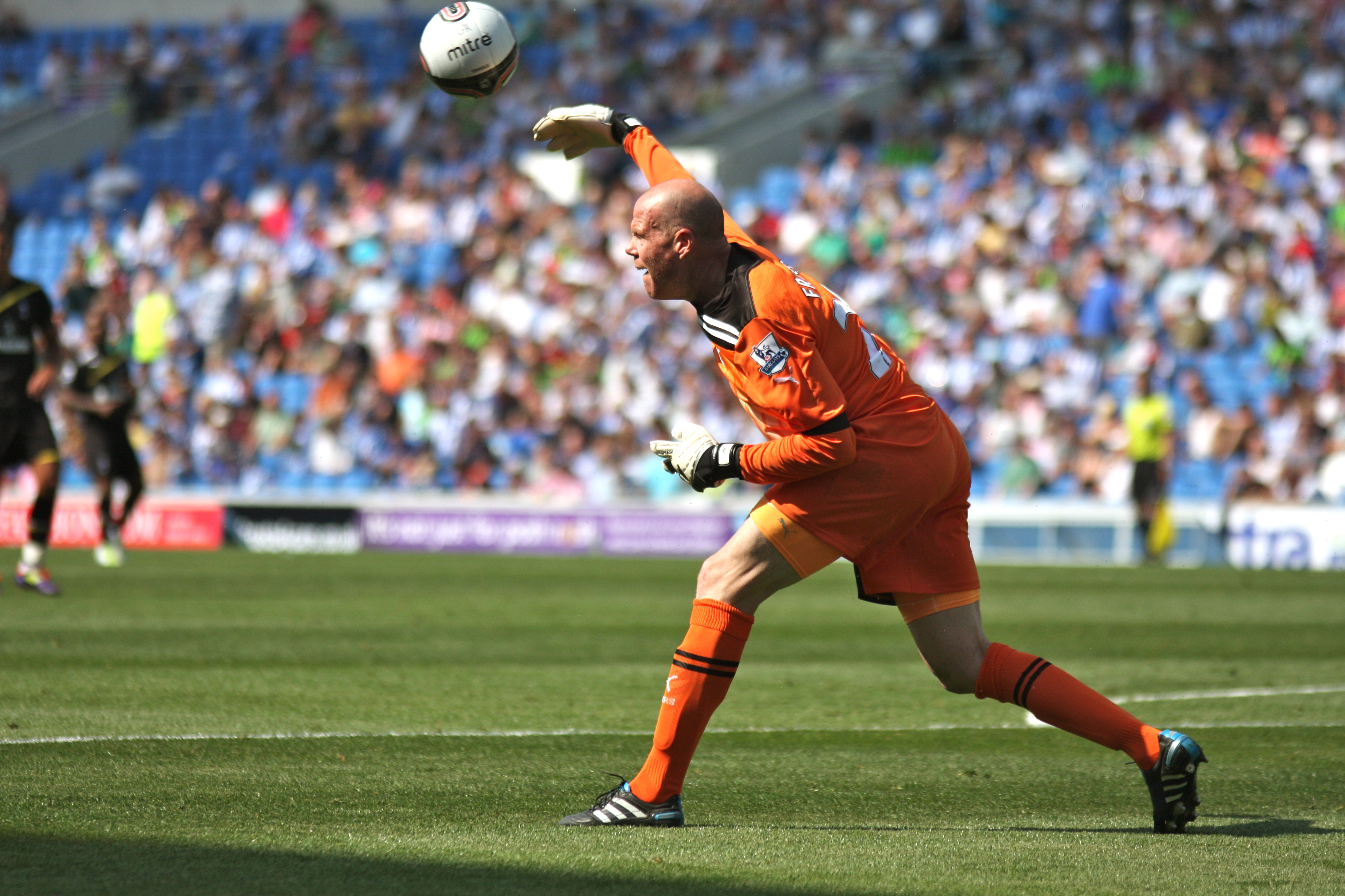 Brad Friedel of Tottenham Hotspur.